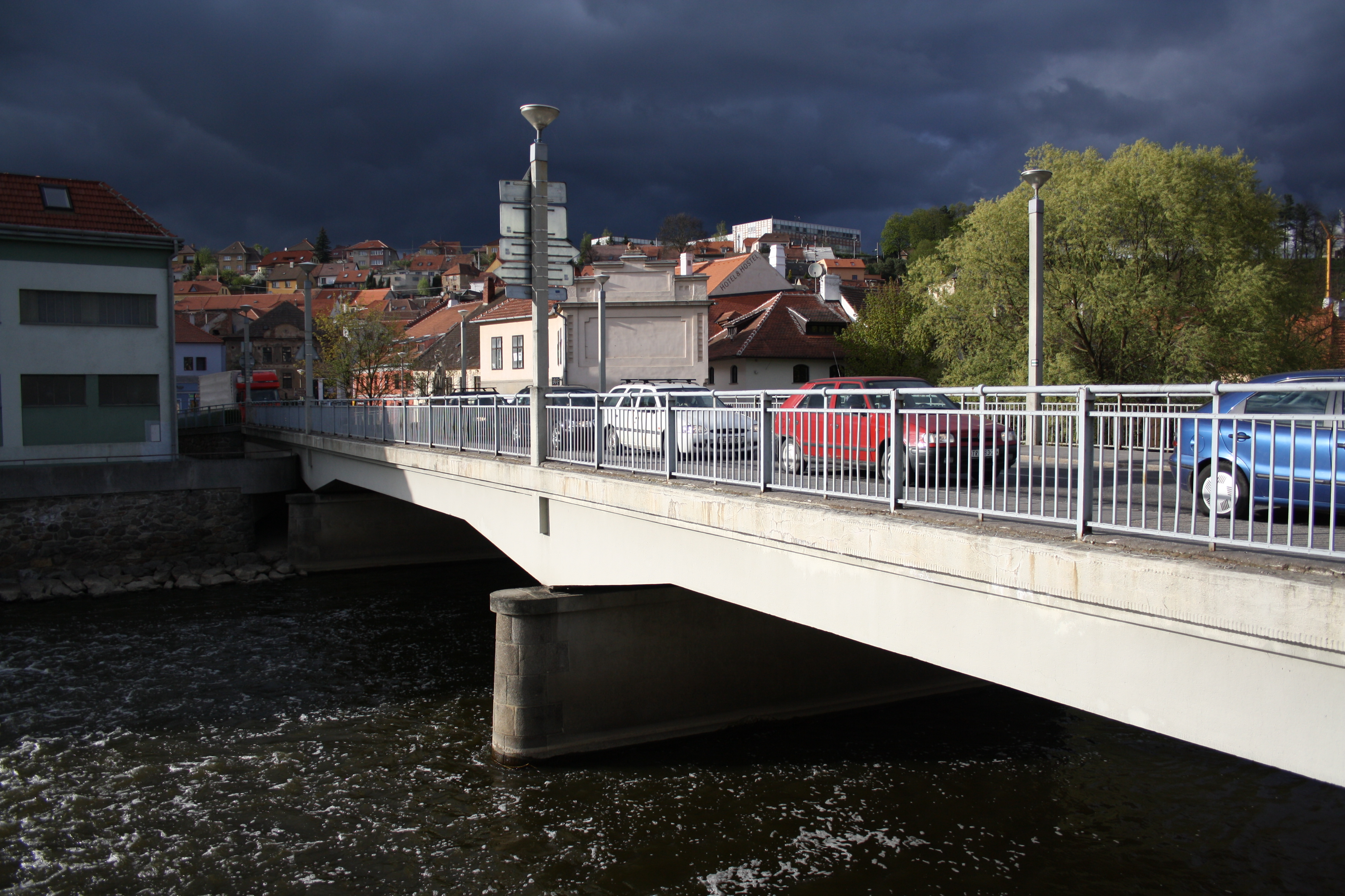 Podklášterský bridge in Třebíč, Czech Republic.